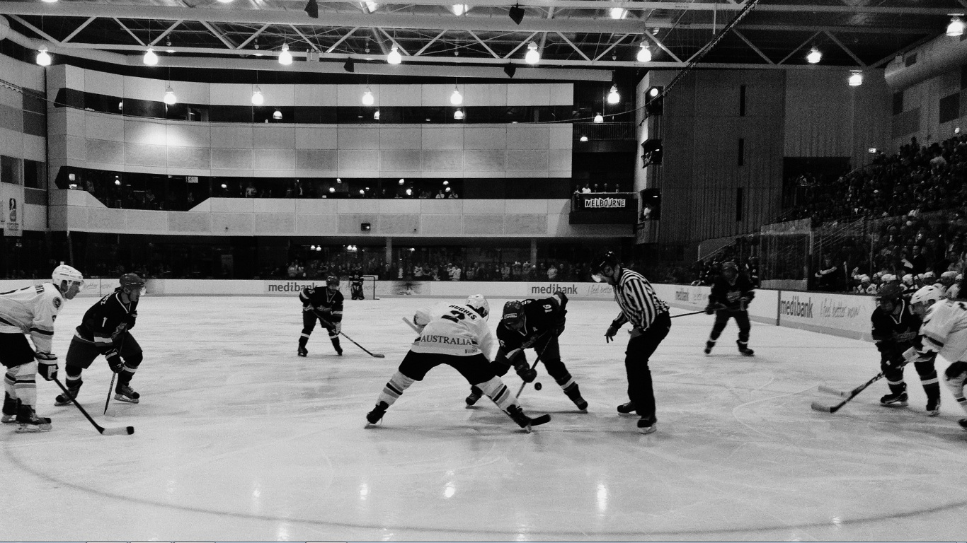 Australia versus Mexico in the 2011 IIHF World Championship Division II.